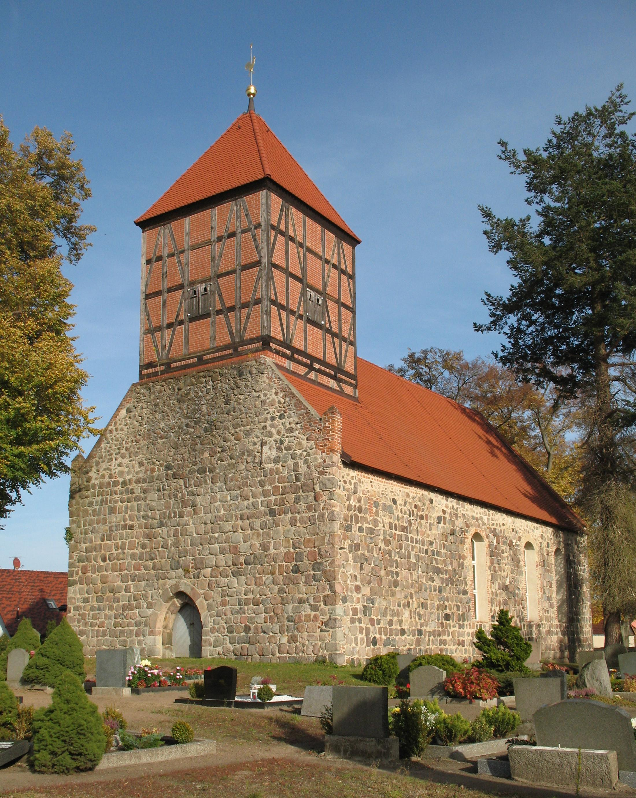 Church in Templin-Gandenitz in Brandenburg, Germany